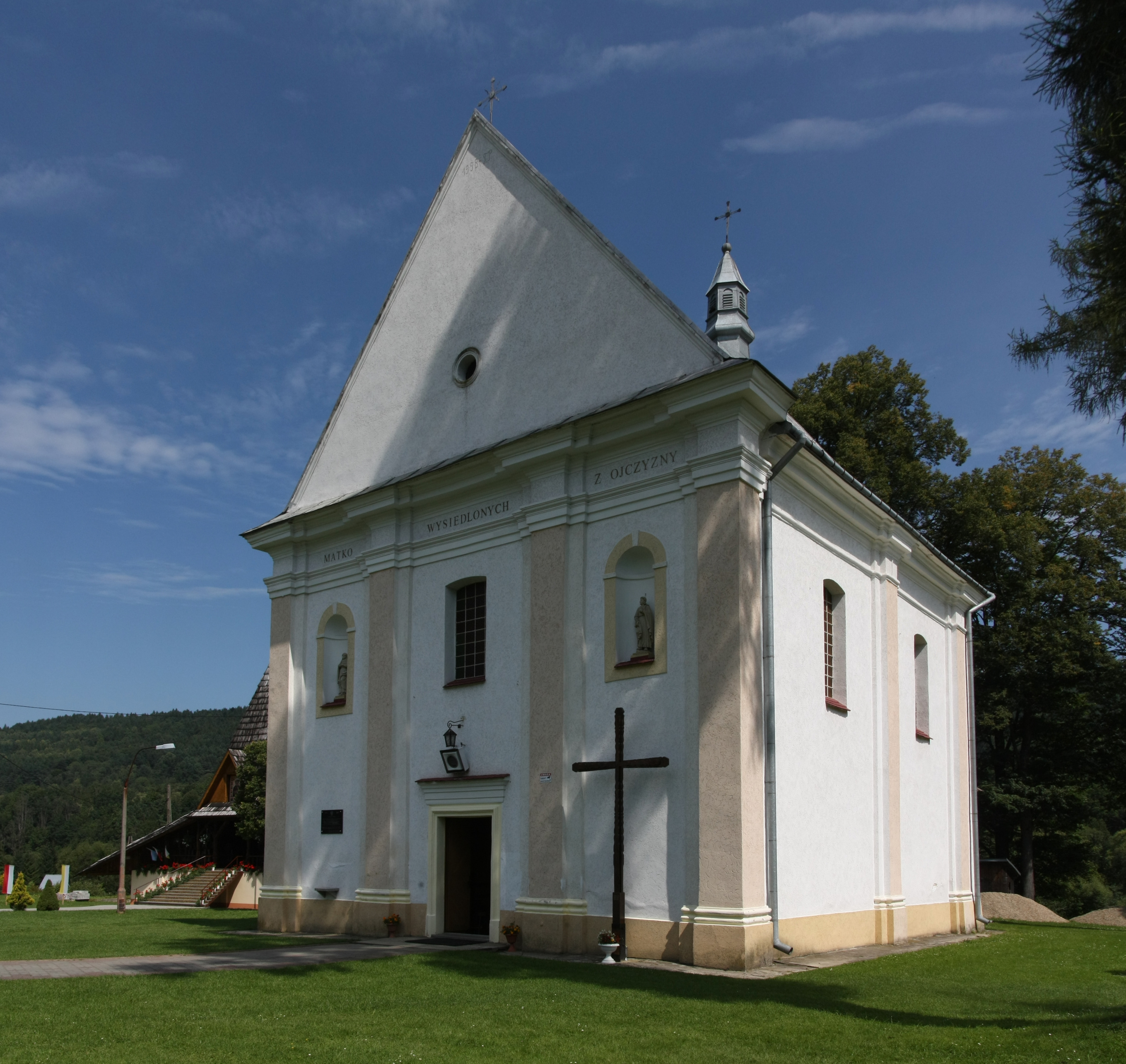 Sanctuary in Ustrzyki Dolne